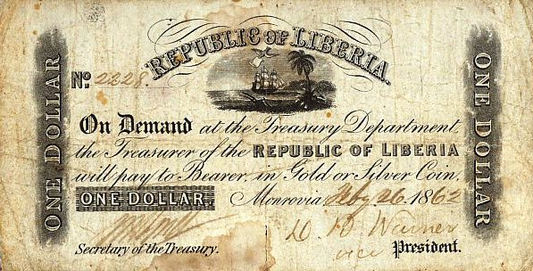 1862 Liberian One Dollar bill